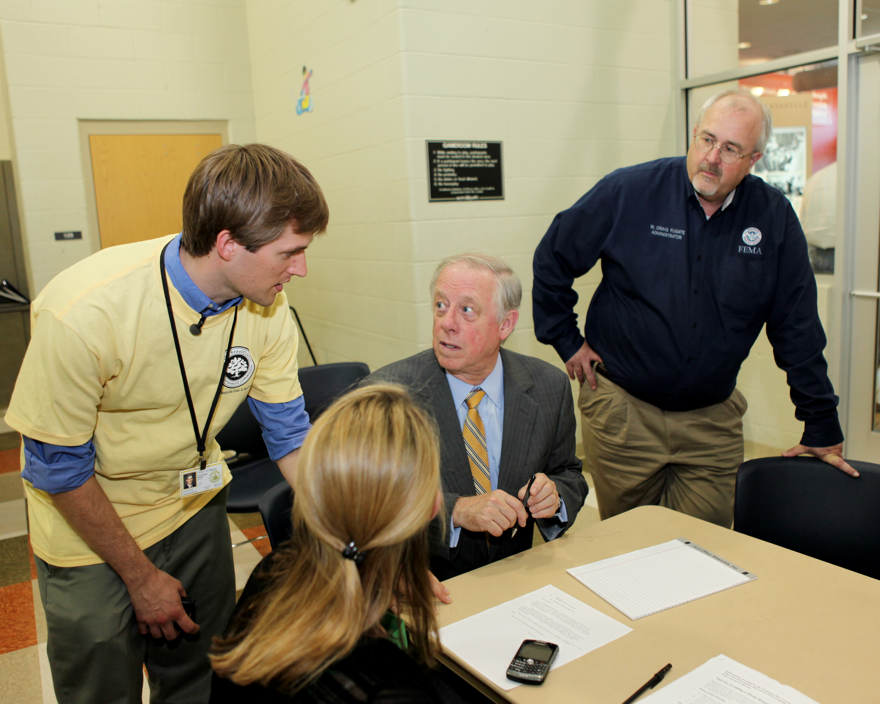 Nashville, TN, May 6, 2010 -- Administrator Fugate visits Hadley Community Center with Governor Phil Bredeson speak with volunteer attorneys at the disaster assistance center. FEMA is responding the severe storms and flooding that damaged or destroyed many homes and businesses across Tennessee. David Fine/FEMA